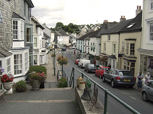 View of Modbury, looking down Church Street. Taken by Vicky Hammerstein.